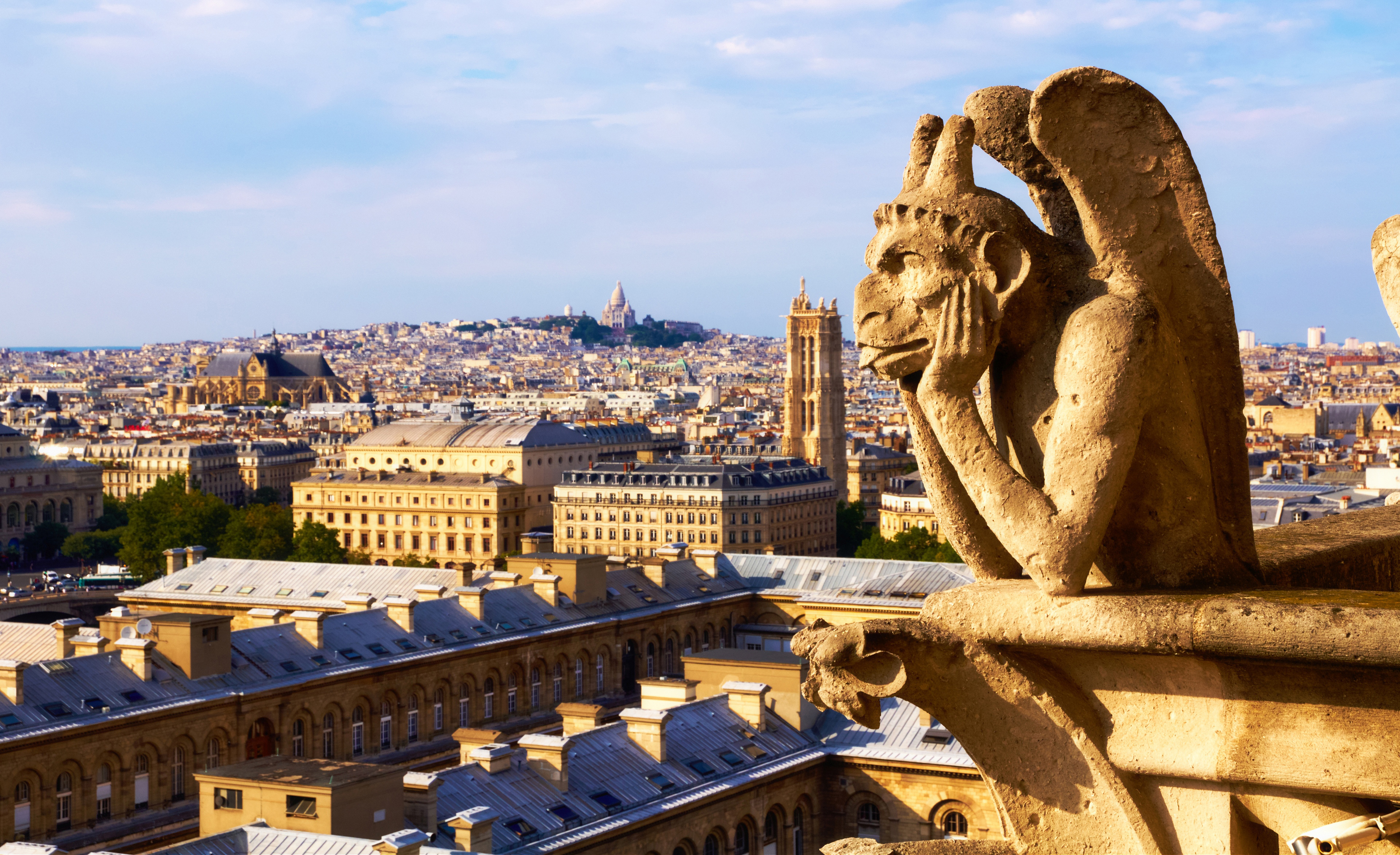 Paris, gargoyles on the terrace of the so called Notre Dame de Paris.